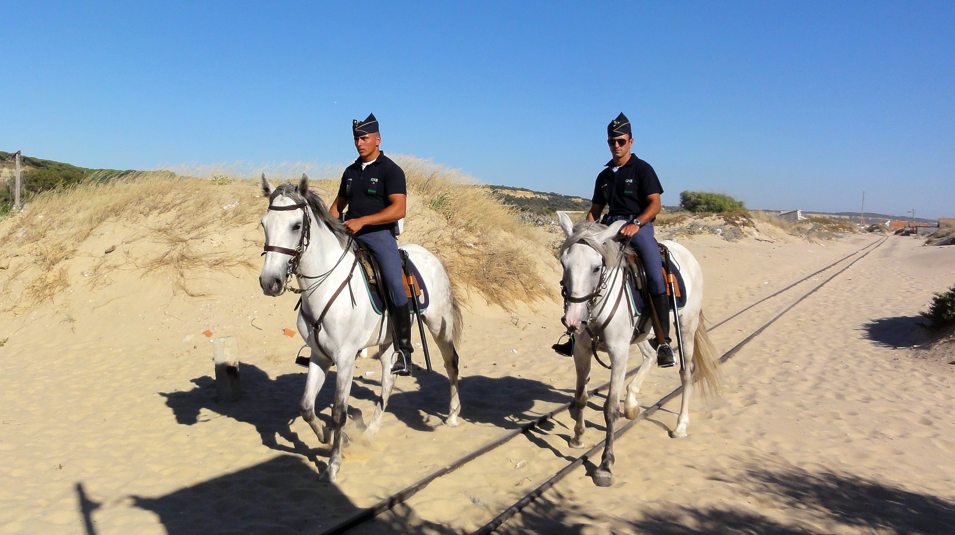 Lusitano horses of National Republican Guard (Portugal) at Praia da Saúde (in English, Beach of Health) Costa da Caparica, next to Almada, 15 kilometers of the Lisbon city (Thursday, July 12, 2012, 7:14 p.m.).